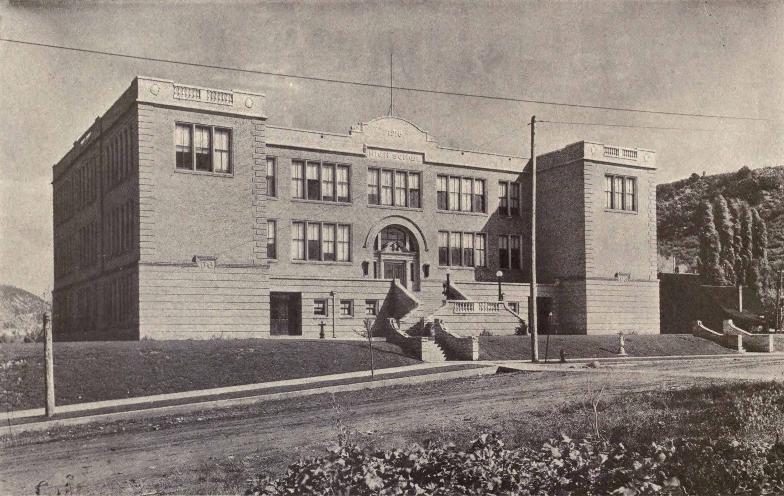 Exterior of the Durango High School in Durango, Colorado. Listed on the National Register of Historic Places, it is now the district administration building.